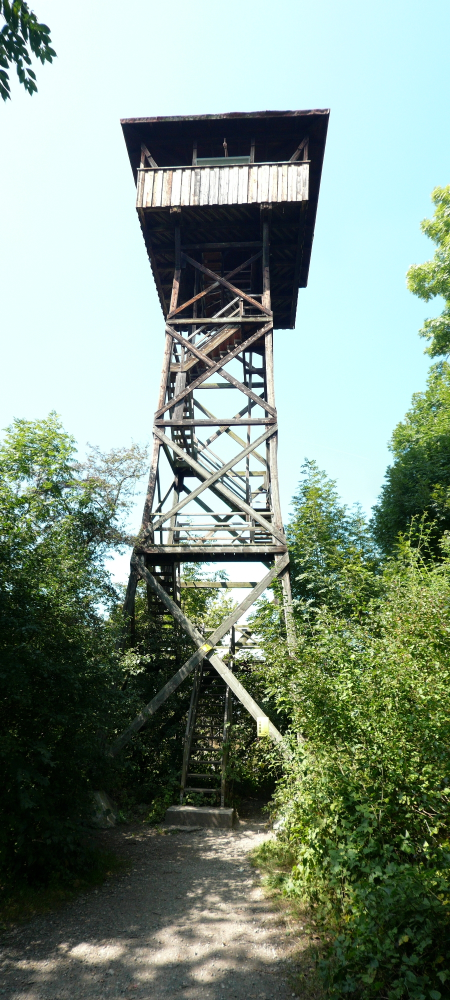 Panorama tower on peninsula Mettnau near Radolfzell